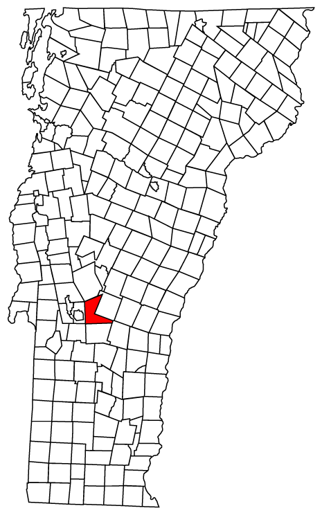 Description: Map of Vermont towns with Mendon highlighted Source: Map created by Jared C. Benedict on 26 March 2004. Copyright: © Jared C. Benedict.